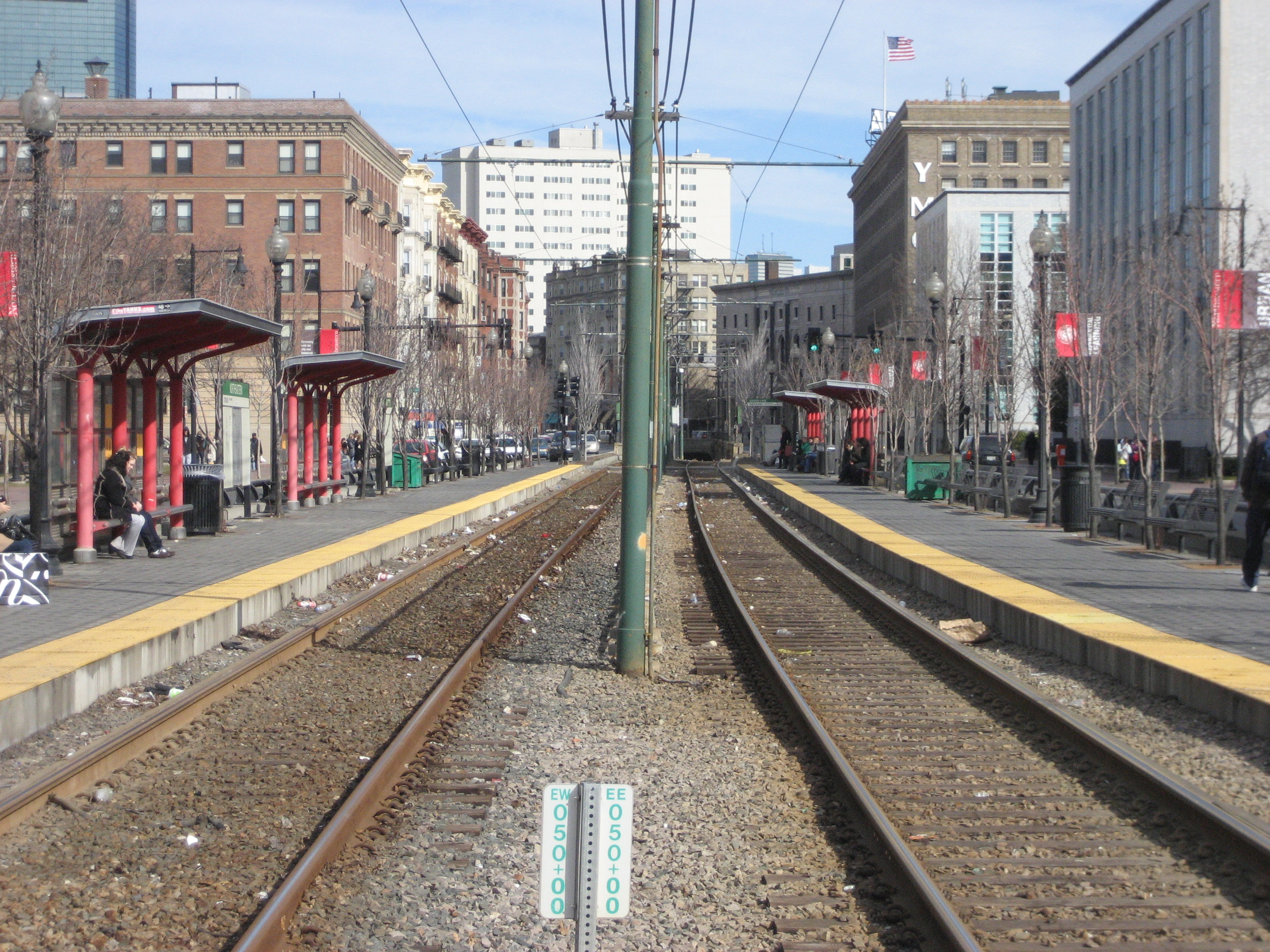 Northeastern Station as seen from the Forsyth Street intersection